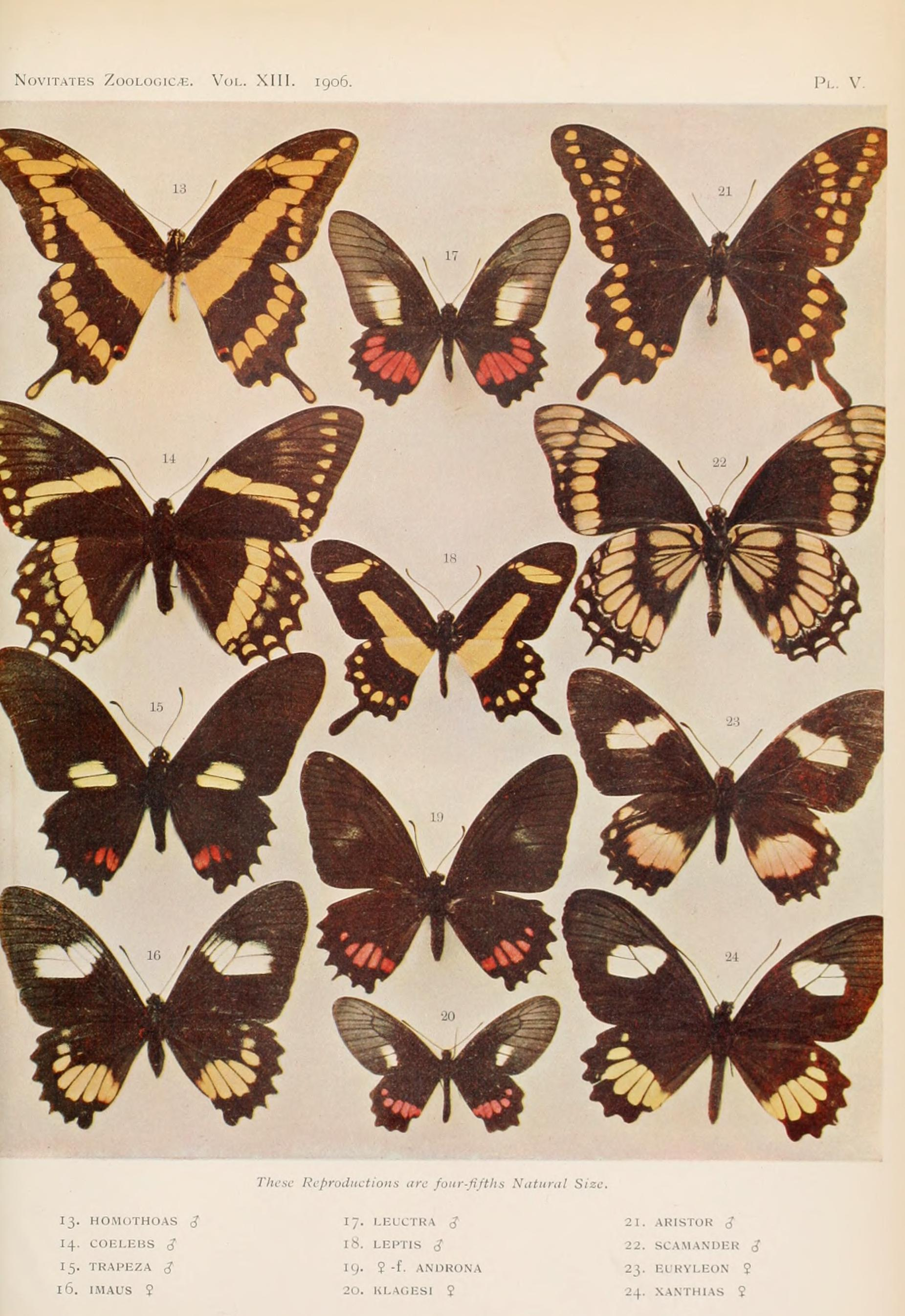 Novitates Zoologicae VolumeXIII1906PlateV 13 Papilio homothoas Type 14 Papilio aristeus coelebs Type accepted name Papilio menatius coelebs Rothschild & Jordan, 1906 (Peru) 15 Papilio trapeza accepted name Mimoides xynias (Hewitson, 1875) ssp. trapeza (Rothschild & Jordan, 1906) 16 Papilio harmodius imaus Type accepted name Mimoides xeniades (Hewitson, 1867) imaus (Rothschild & Jordan, 1906) 17 Papilio ariarathes Leuctra Type accepted name accepted name Mimoides ariarathes leuctra (Rothschild & Jordan, 1906) 18 Papilio torquatus leptalia Type accepted name Papilio torquatus leptalea Rothschild & Jordan, 1906 19 Papilio harmodius xeniades form androna accepted name Mimoides xeniades xeniades(Hewitson, 1867) 20 Papilio klagesi accepted name Parides klagesi (Ehrmann, 1904) 21 Papilio aristor 22 Papilio scamander 23 Papilio euryleon euryleon 23 Papilio erlaces xanthias text